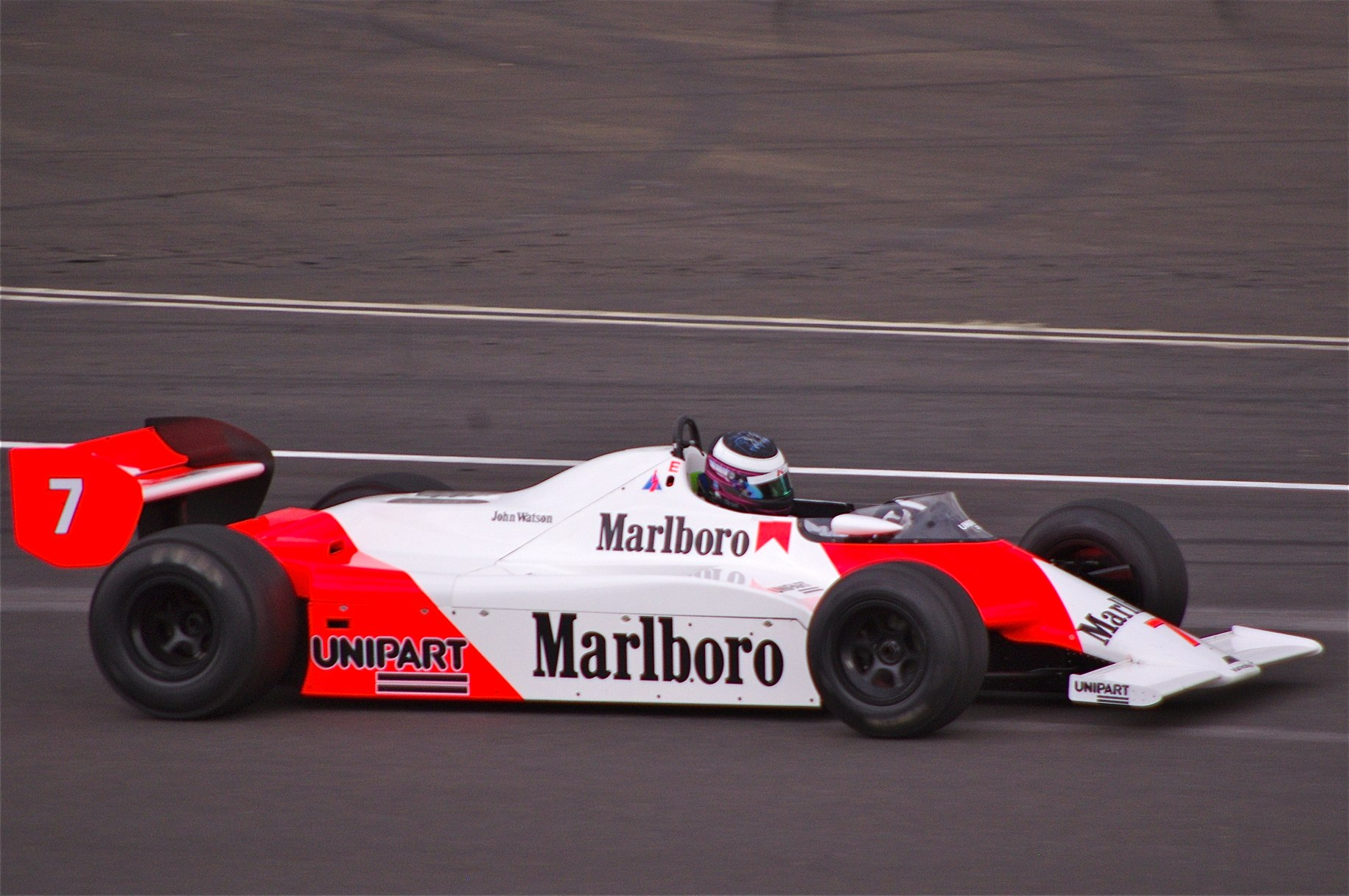 Silverstone Classic 2011